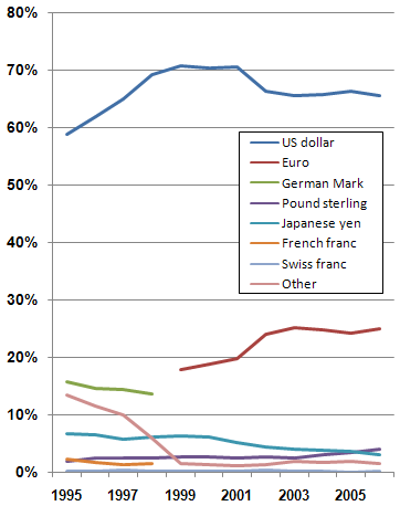 Percentage of global currency reserves held in the particular currency